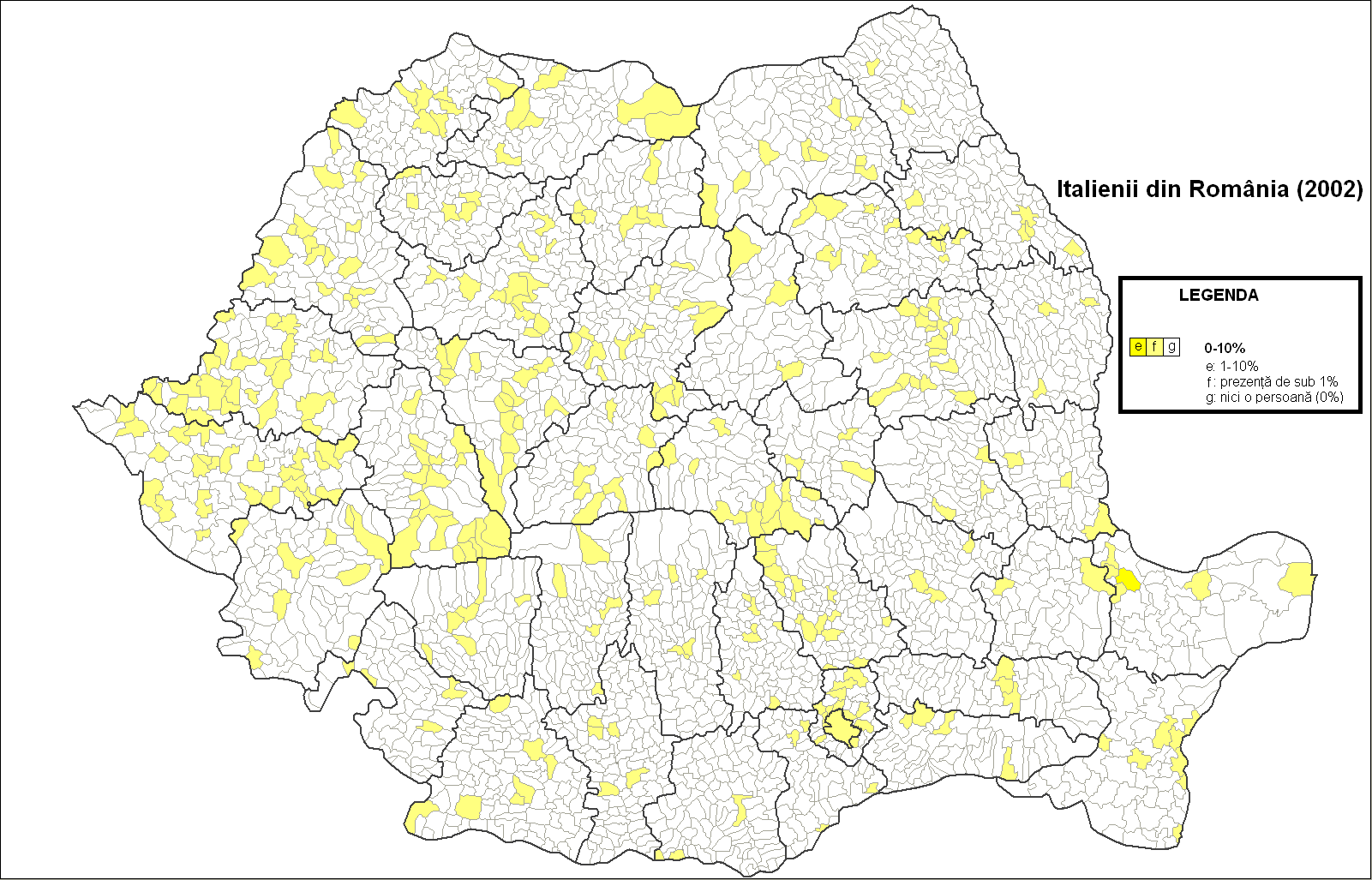 The distribution of the Italians in Romania (census 2002)